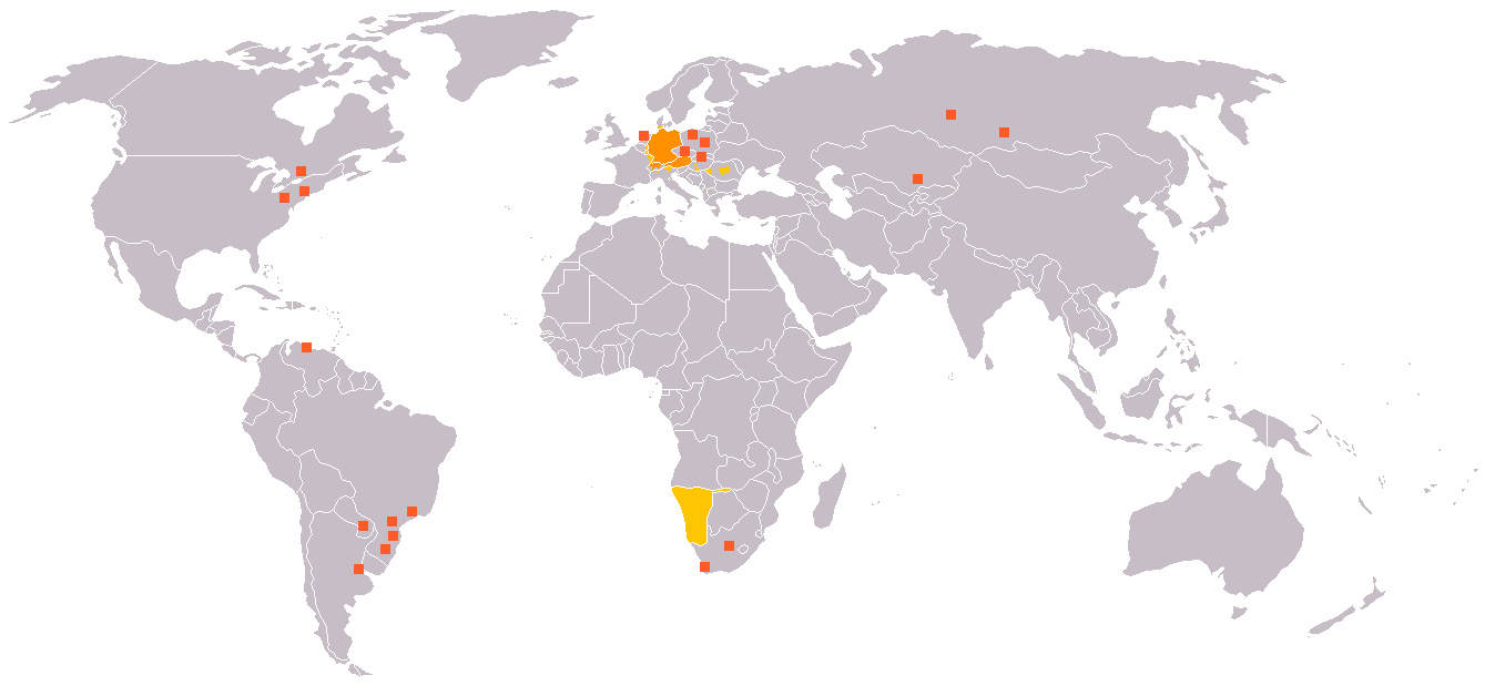 Legend: Orange: native language Gold: Secondary language or non-official. Red-orange square: German minorities